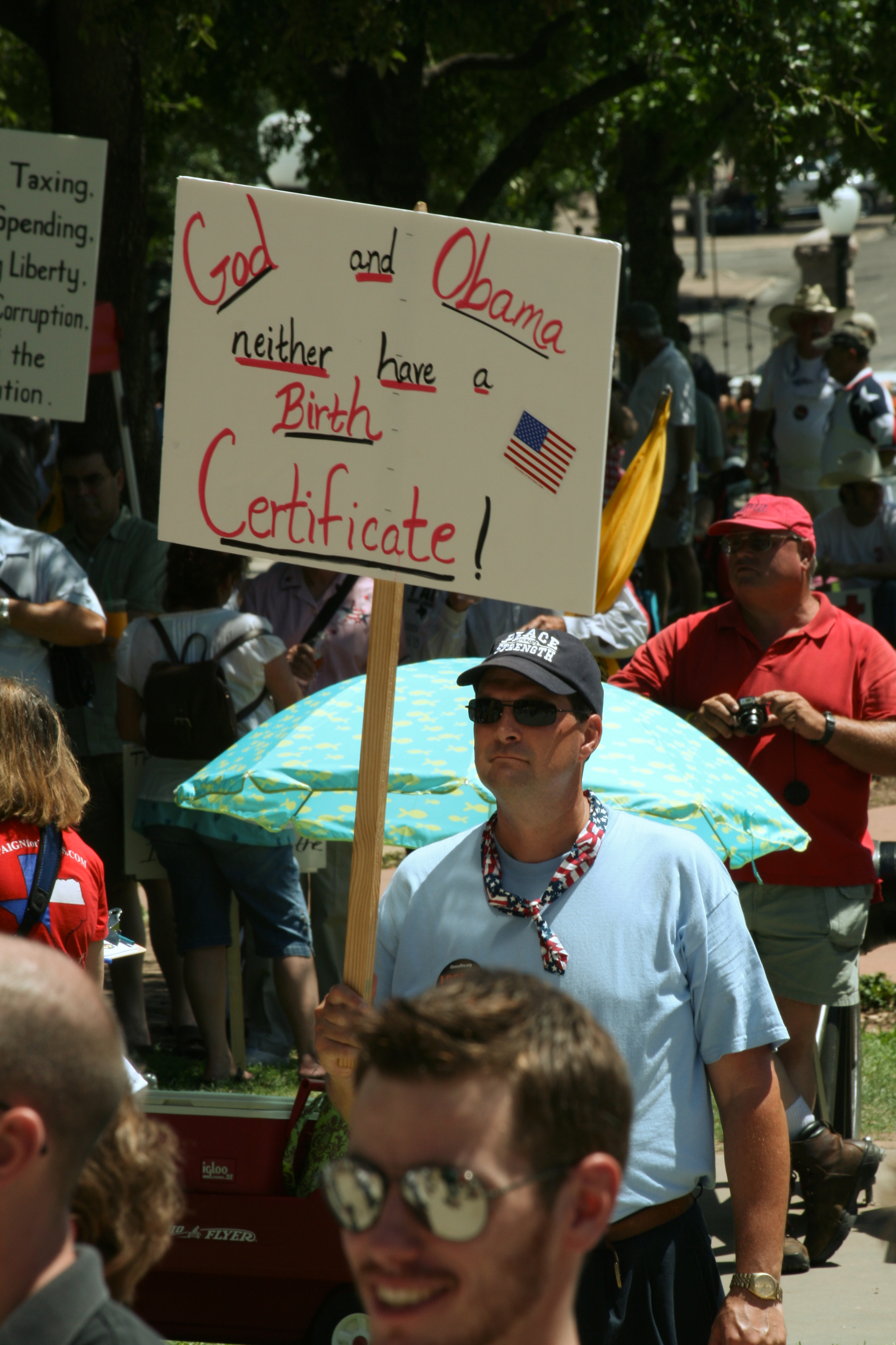 Anti-Obama protester at an Austin, Texas "Tea Party" protest on July 4, 2009